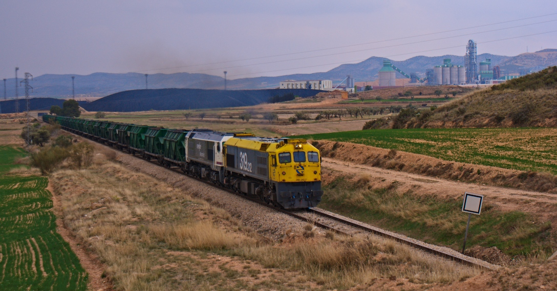 Train locomotive in Teruel, Spain